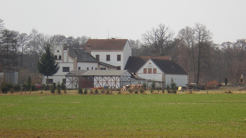 Krapice (Františkovy Lázně), Cheb District, Czech Republic